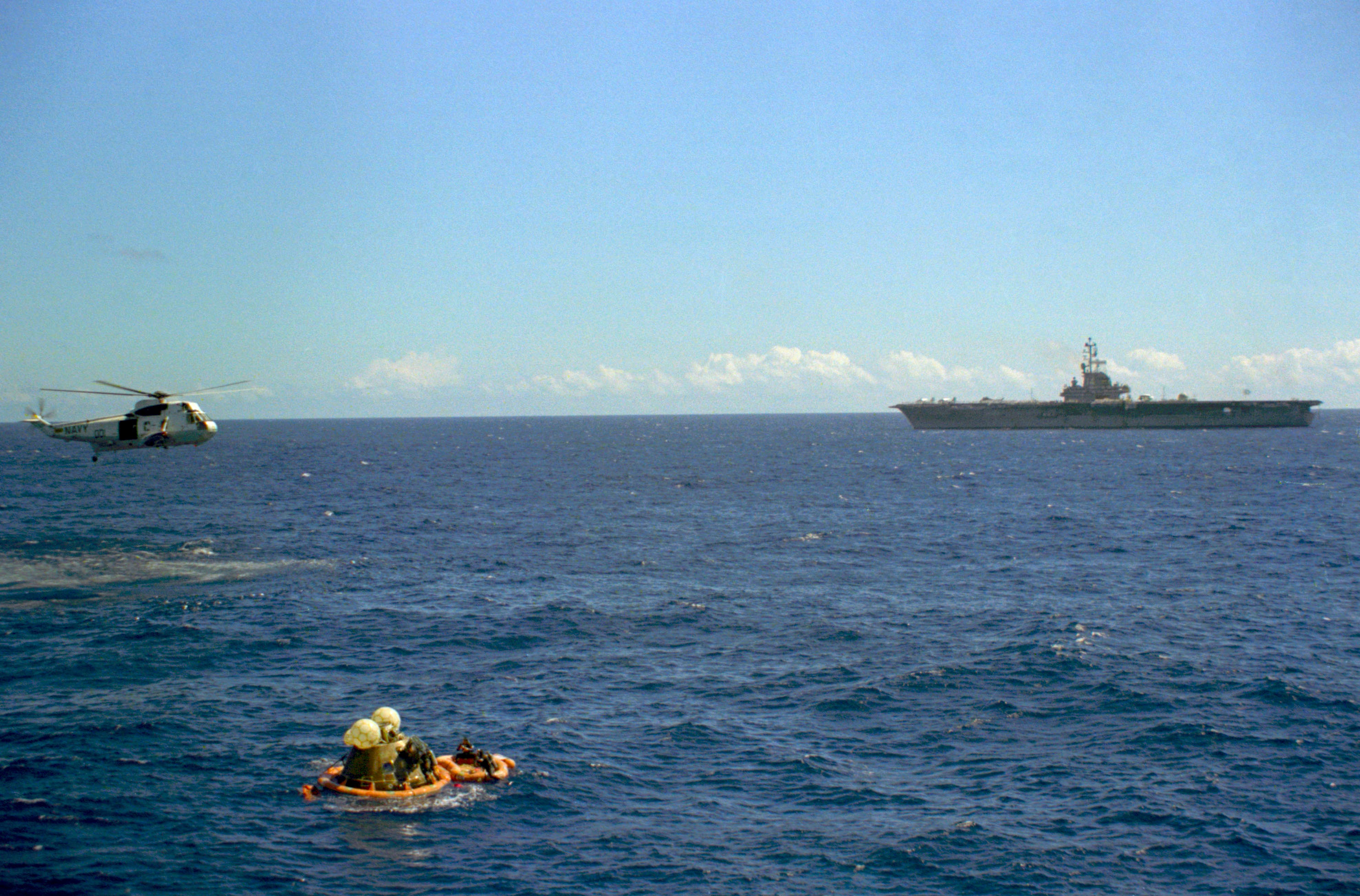 Apollo 16 recovery, 27 April 1972: A U.S. Navy Sikorsky SH-3G Sea King (BuNo 149930) of Helicopter Combat Support Squadron 1 (HC-1) "Pacific Fleet Angels" approaches the Apollo 16 command module. The aircraft carrier USS Ticonderoga (CVS-14) is visible in the background.